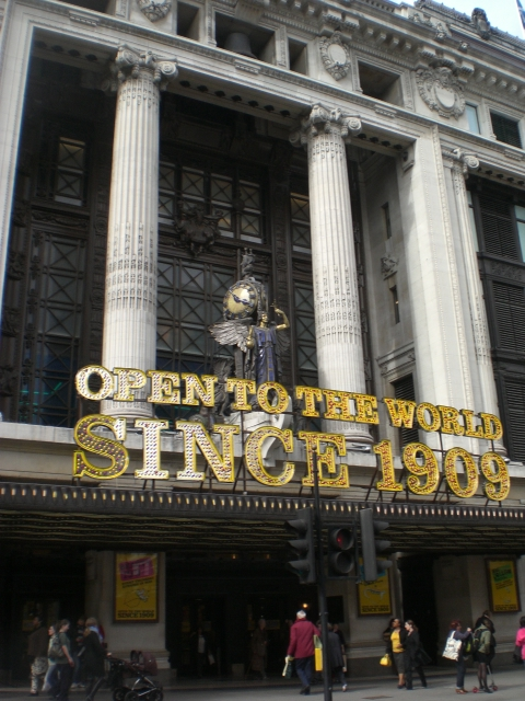 Entrance to Selfridges, Oxford Street W1